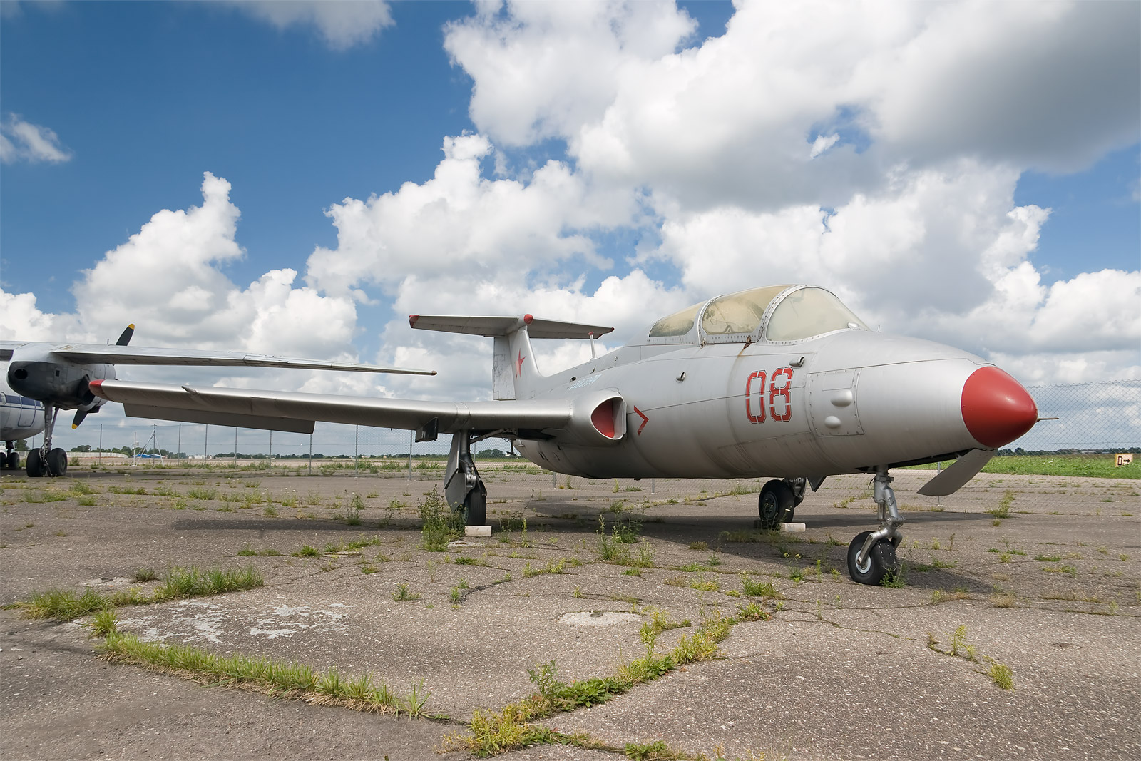 Preserved Aero L-29 Delphin at Aleksotas airport (S. Dariaus / S. Gireno) (EYKS), Kaunas